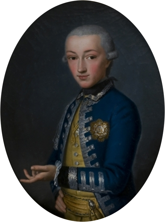 Portrait of Victor Emmanuel I of Sardinia (1759- 1824) as Duke of Aosta.